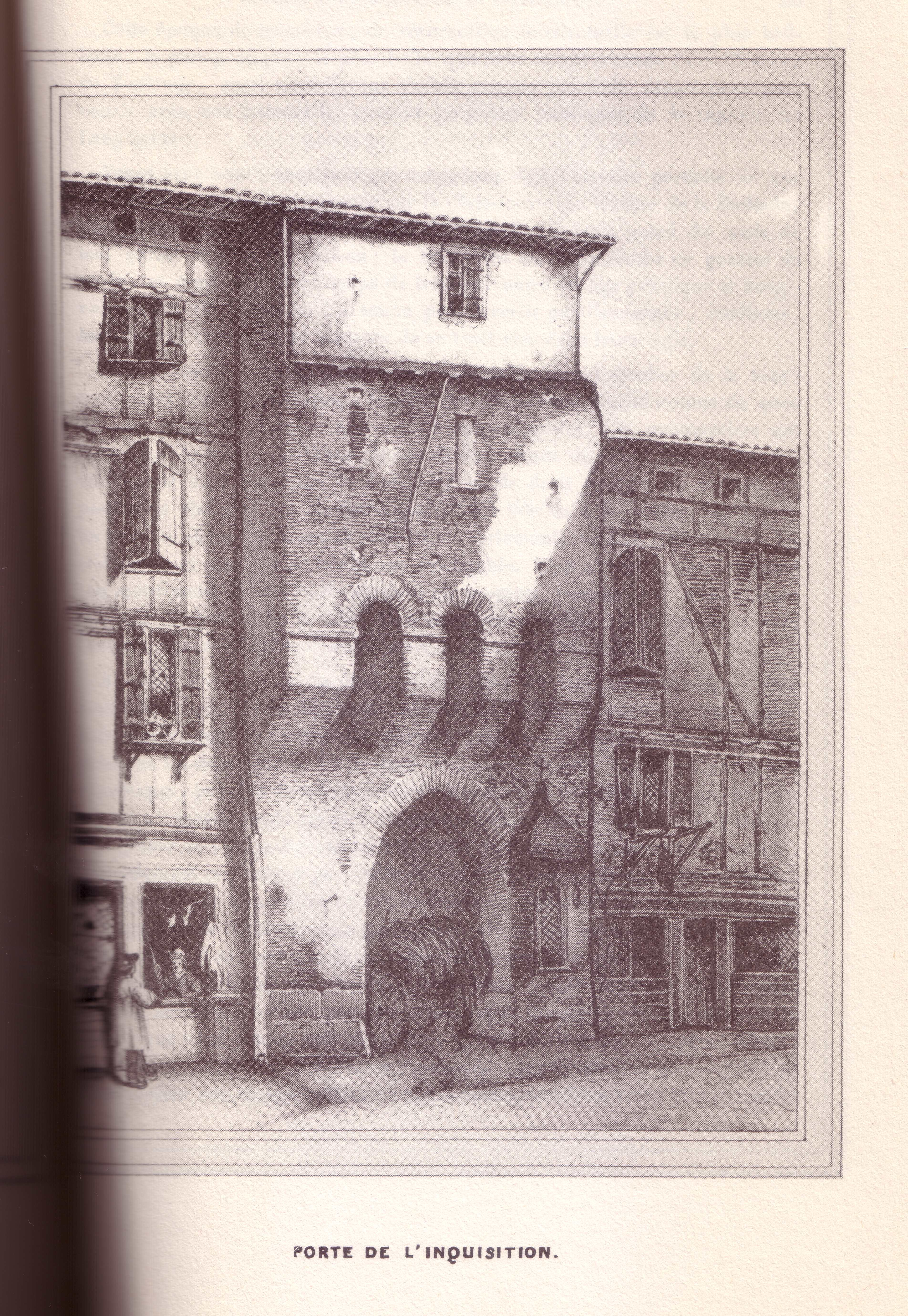 19th century drawings of Toulouse